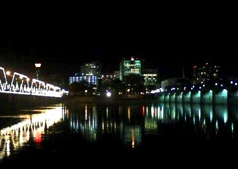 Harrisburg's Center City from City Island.